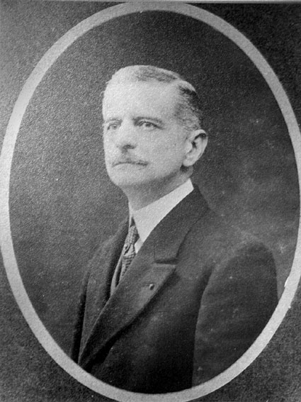 DimitarStanchov, Bulgarian politician